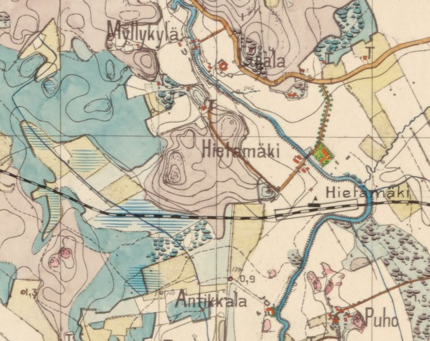 Russian topographical map of Hietamäki village, Mietoinen, Finland. The Turku–Uusikaupunki railway line is a later addition to the original.